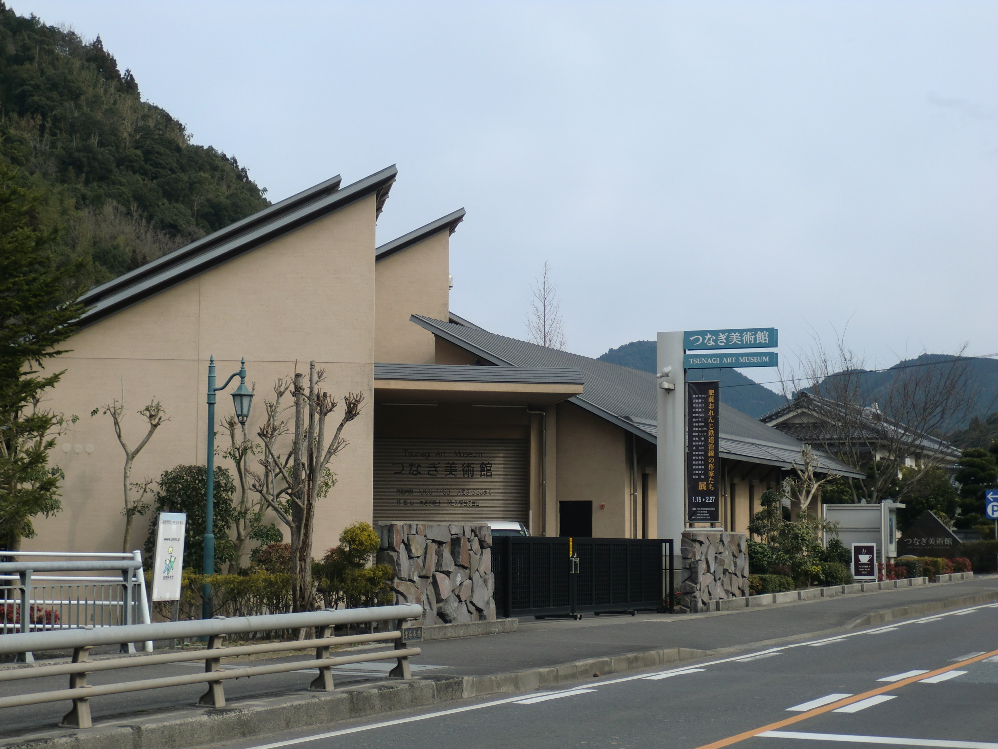 Tsunagi Art Museum Tsunagi-town Ashikita-County KUMAMOTO JAPAN